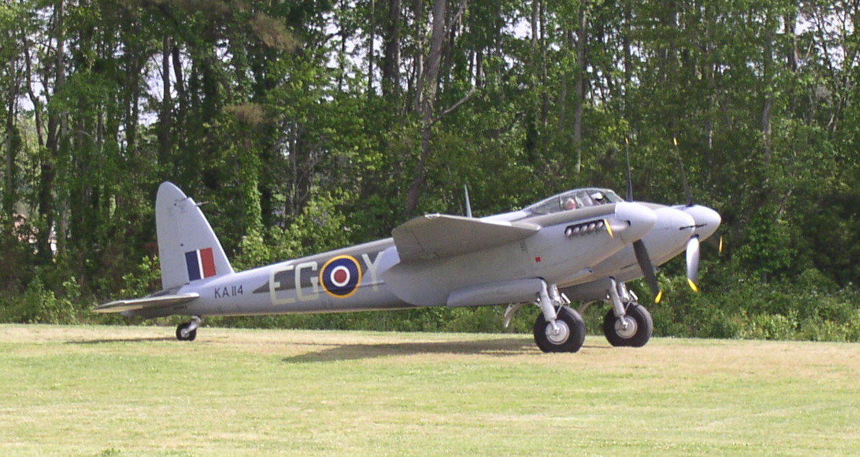 de Havilland Mosquito KA114 taxiing after landing at the Military Aviation Museum